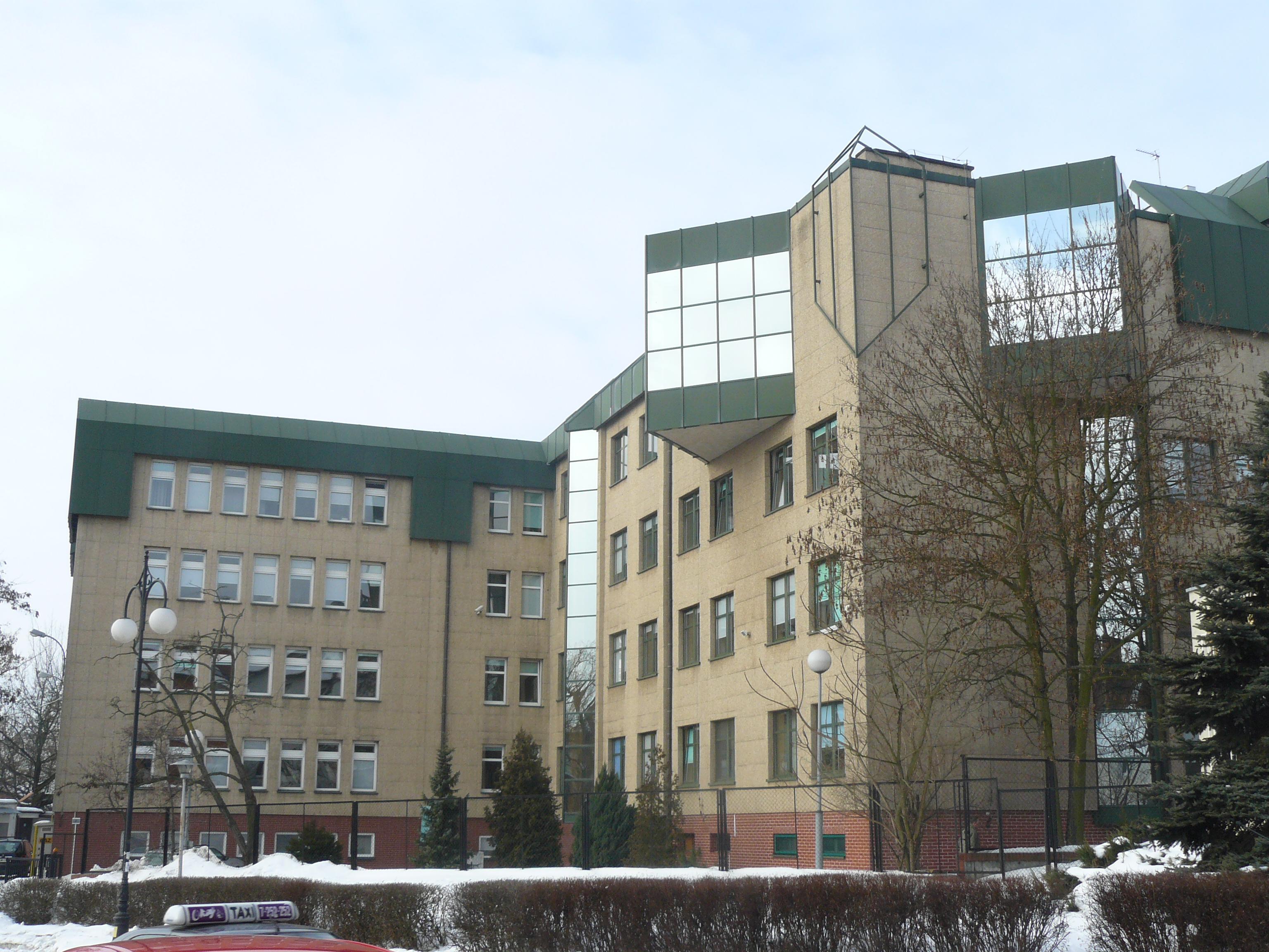 ZUS Office in Gorzów, Sikorskiego Street 42